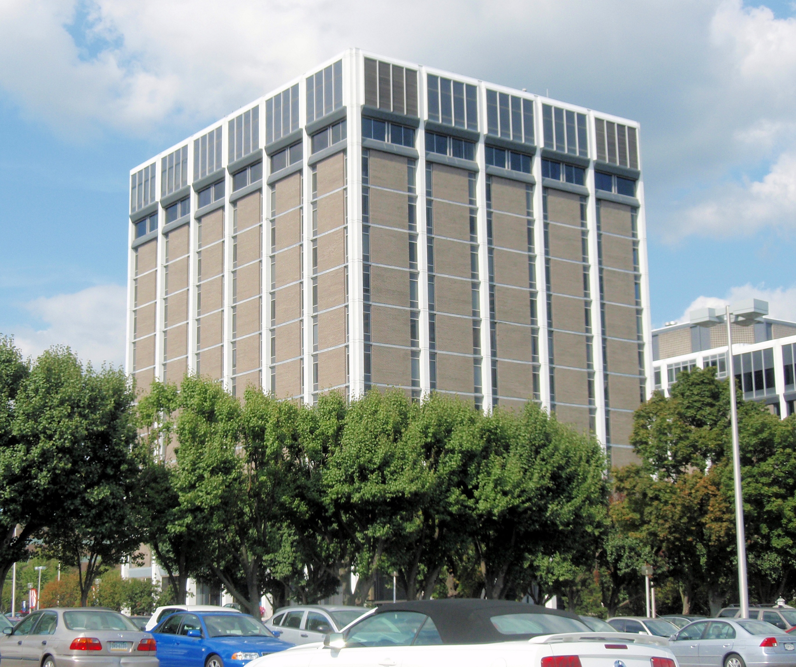 Firaxis Games headquarters are on the 11th floor of this office tower in Cockeysville-Hunt Valley.